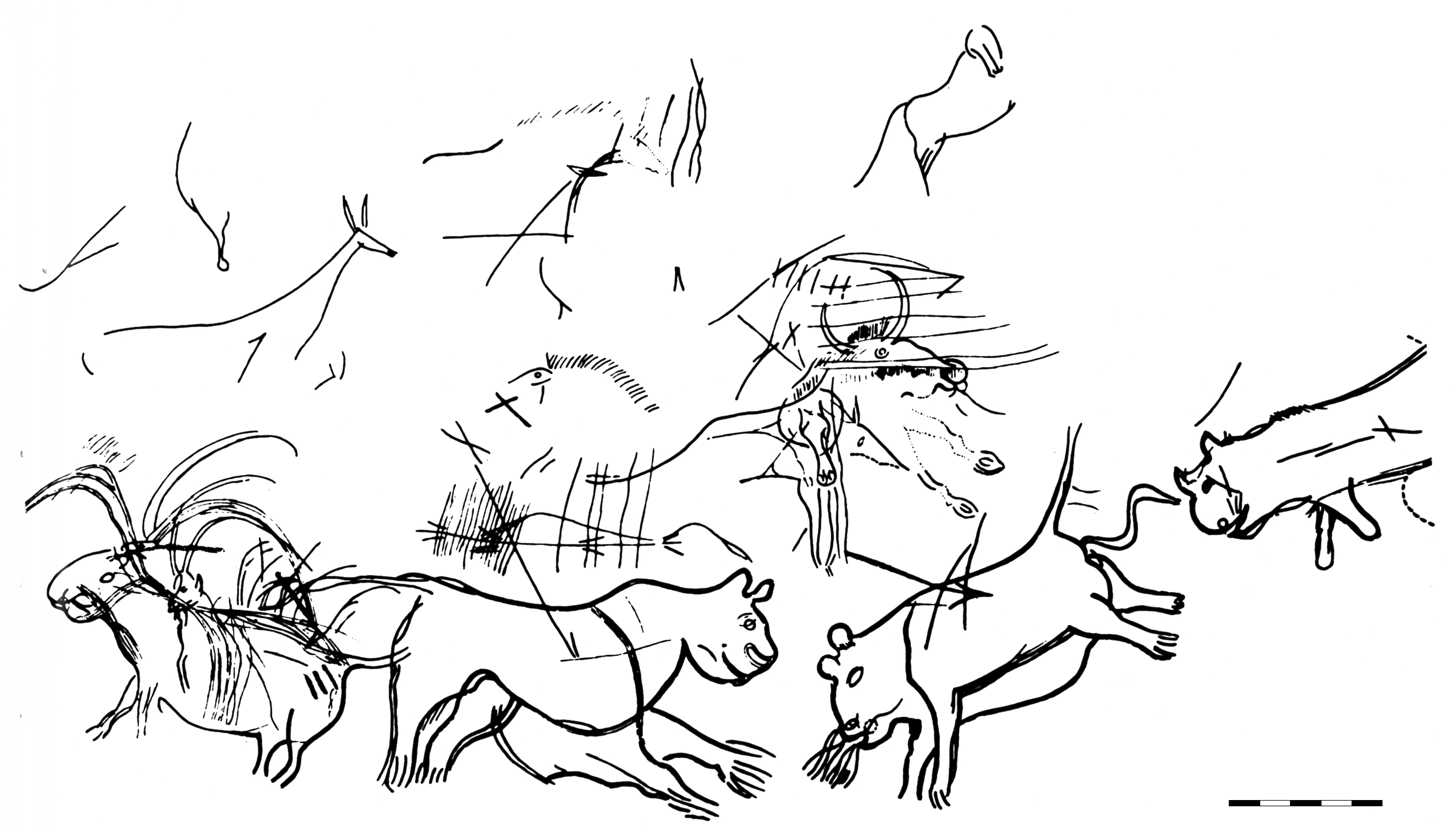 Lascaux cave, Dordogne, France - felids gallery, engravings copied by A. Glory (scale bar = 25 cm).